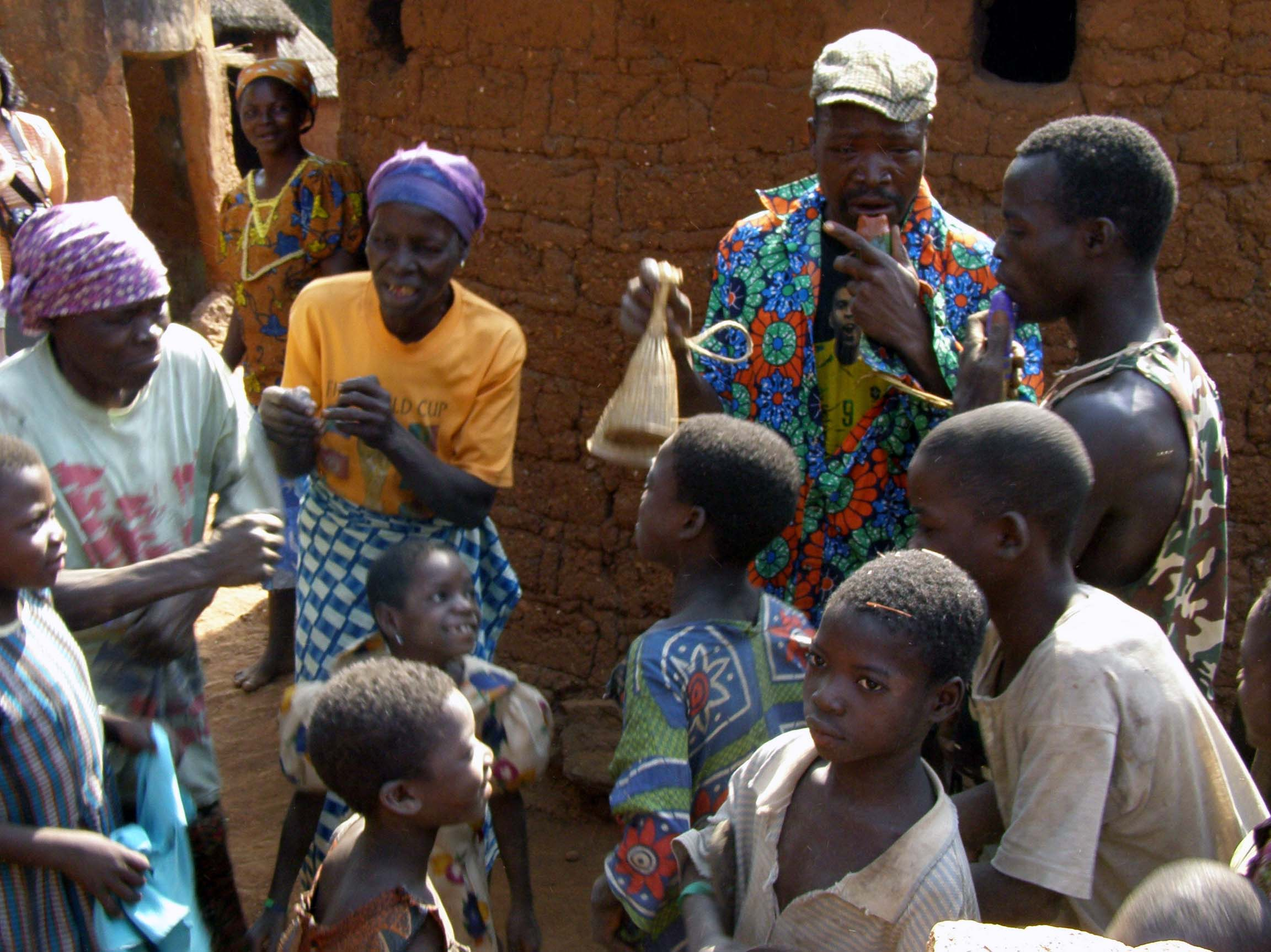 Village of Lassa, Togo